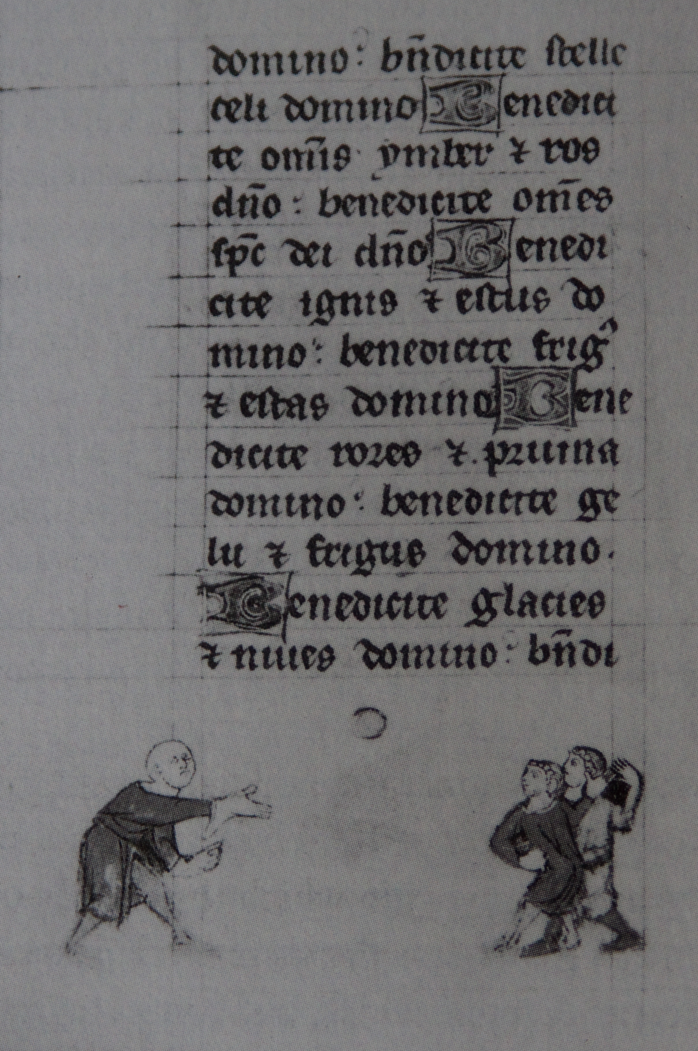 Earliest known picture of tennis (jeu de paume) from a book of hours originating from Cambrai around AD 1300.